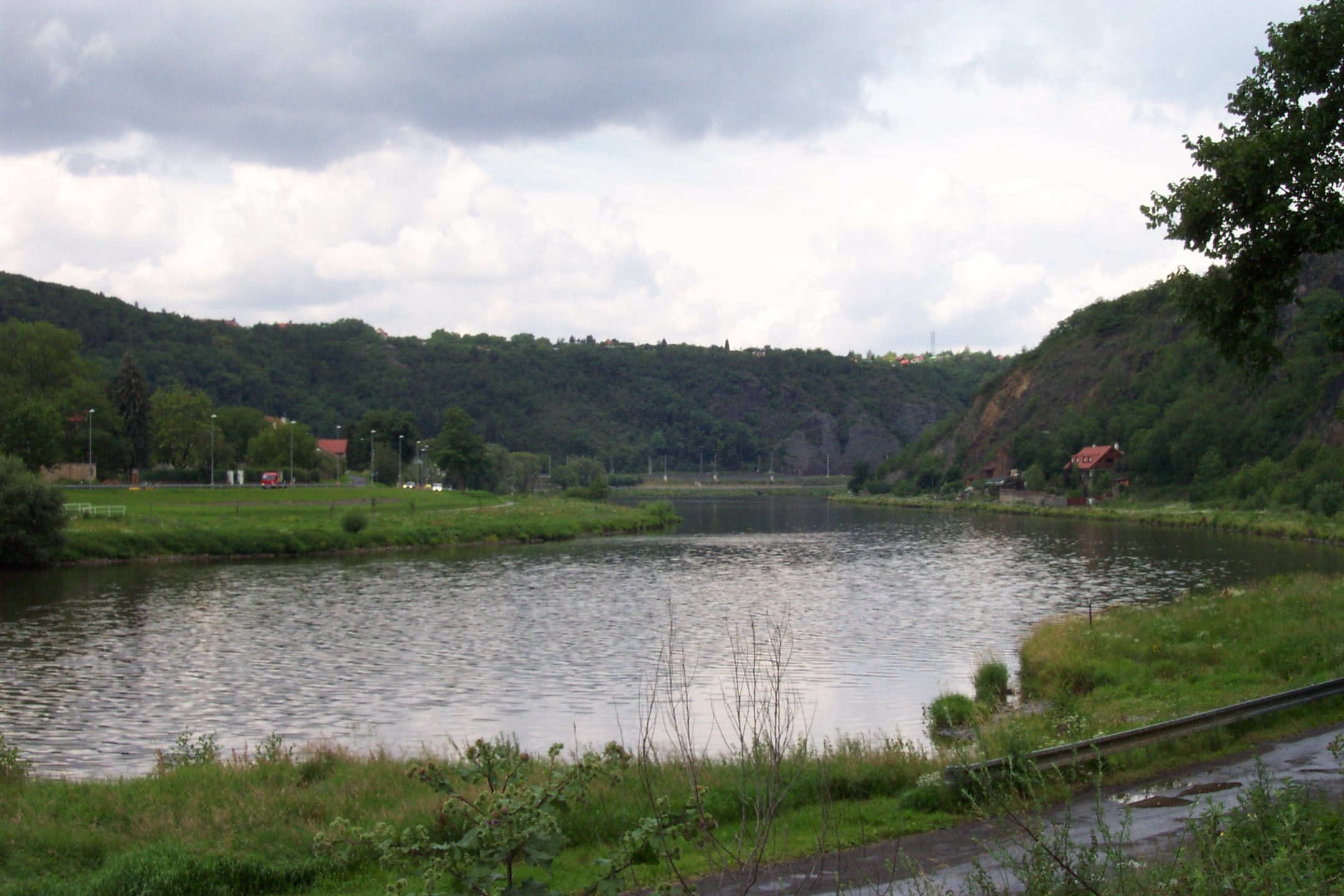 River Vltava in Bohnice near Sedlec (the other riverbank)